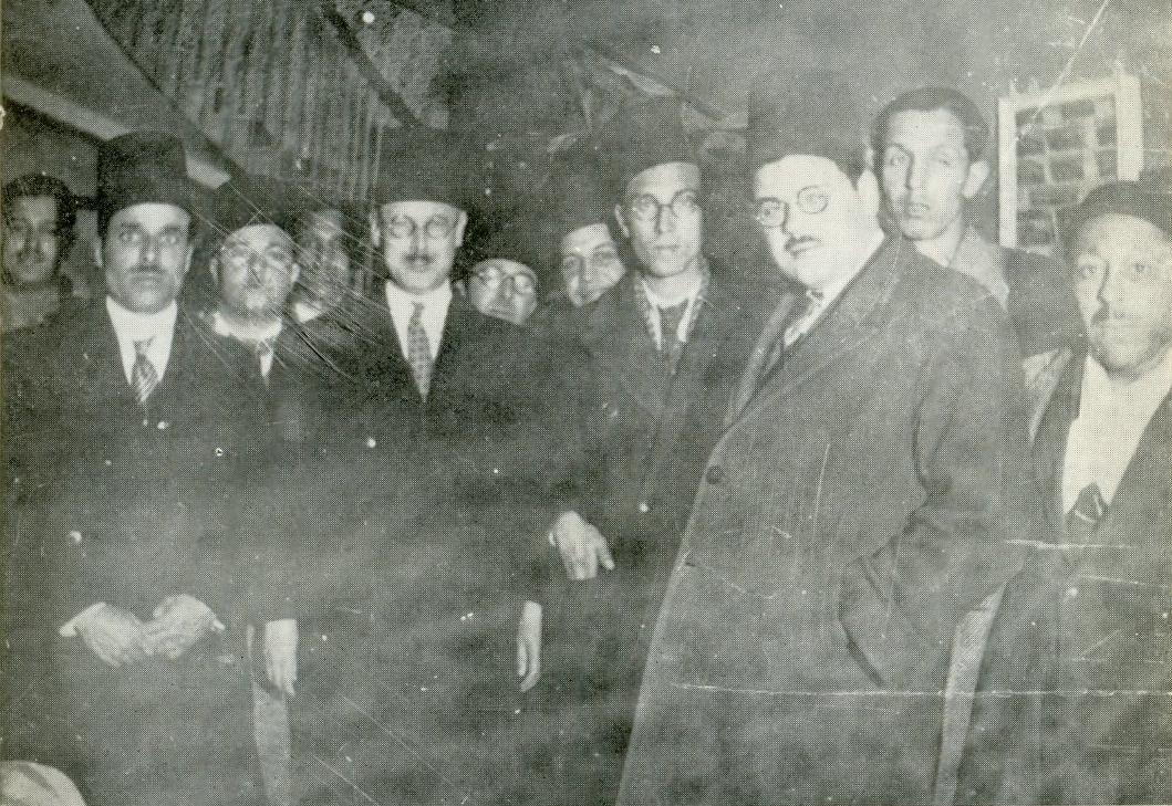 Neo-Destour leaders during its foudation in 1934